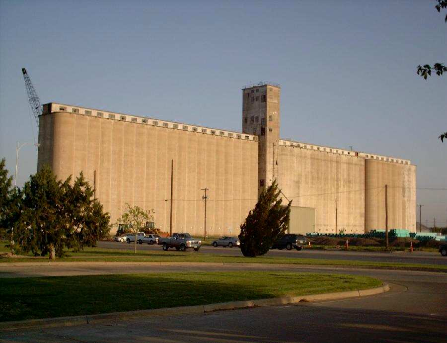 Burrus Elevator - Lubbock, Texas. A concrete and steel grain elevator built in 1928. 123 silos. Photo taken April 29, 2004, just a few minutes before demolition commenced to make room for new freeway.